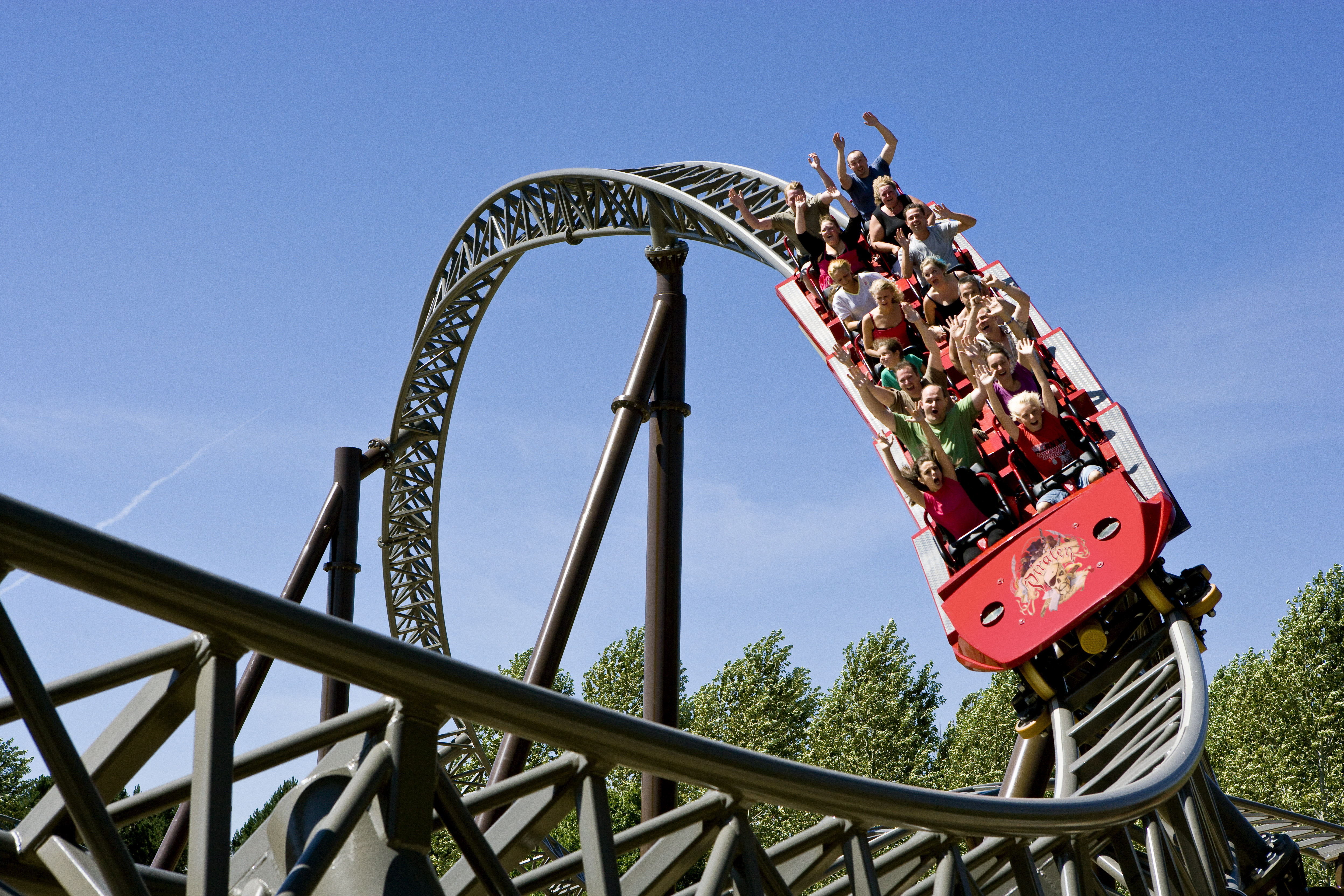 Piraten - Danmarks største og hurtigste rutschebane Djurs Sommerland